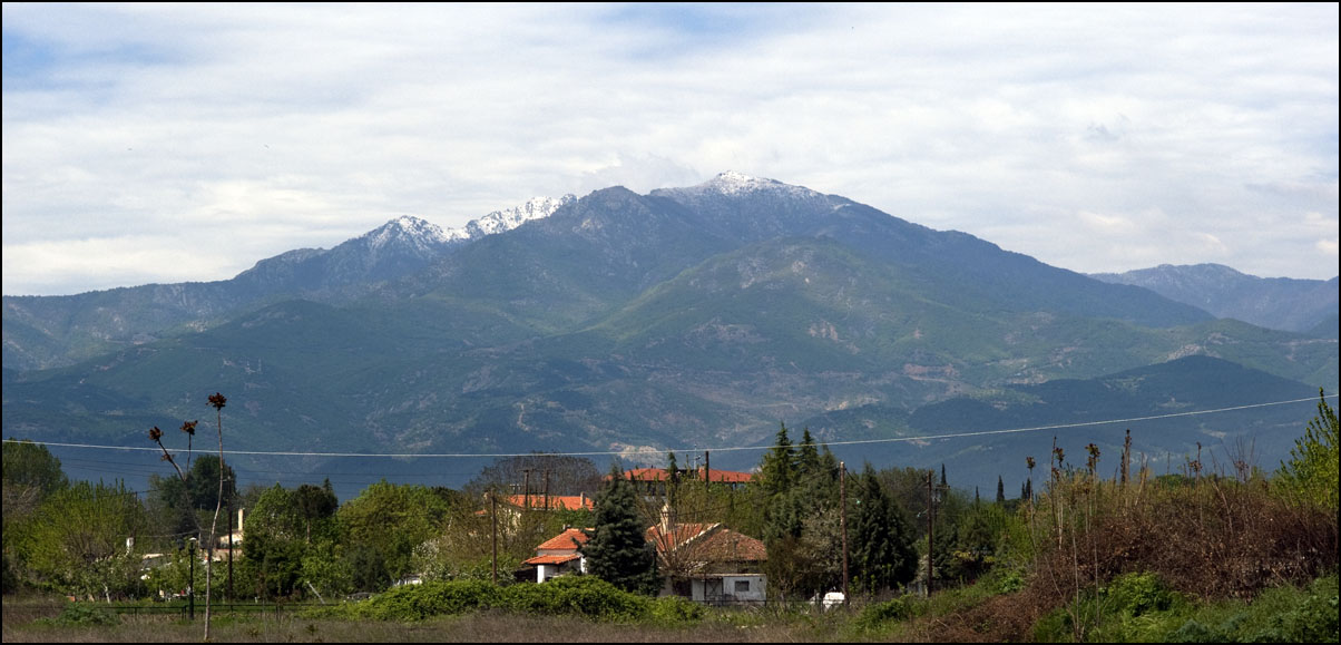 Komotini (Gümülcine), Greece. View of the Papikio mountain from the train station.